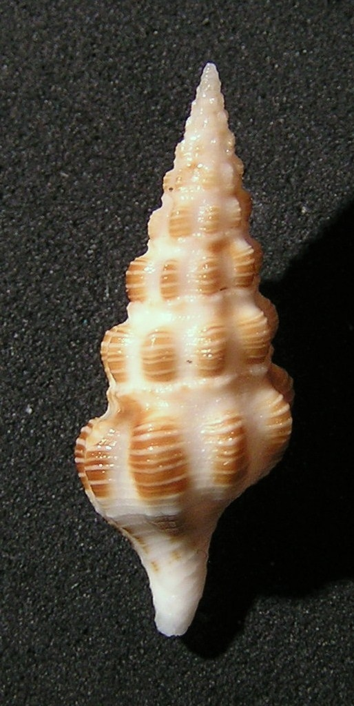 Fenimorea janetae Bartsch, 1934; family Drilliidae; Mexico